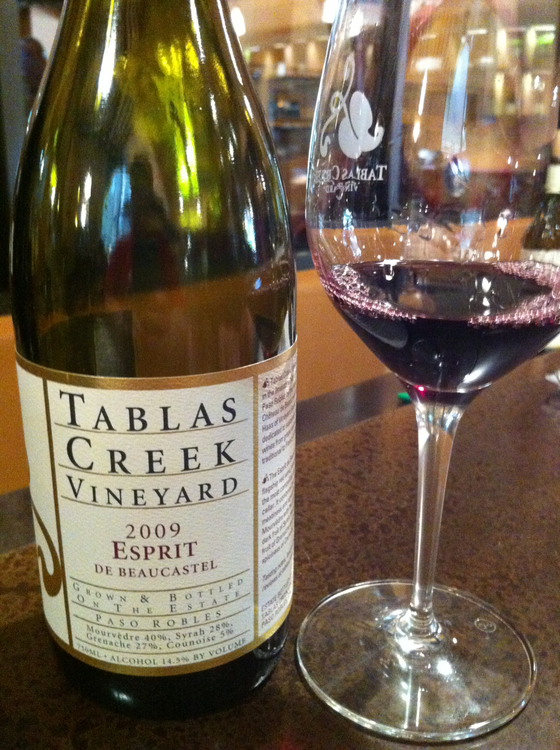 Rhone blend wine from the California winery Tablas Creek in the Paso Robles AVA